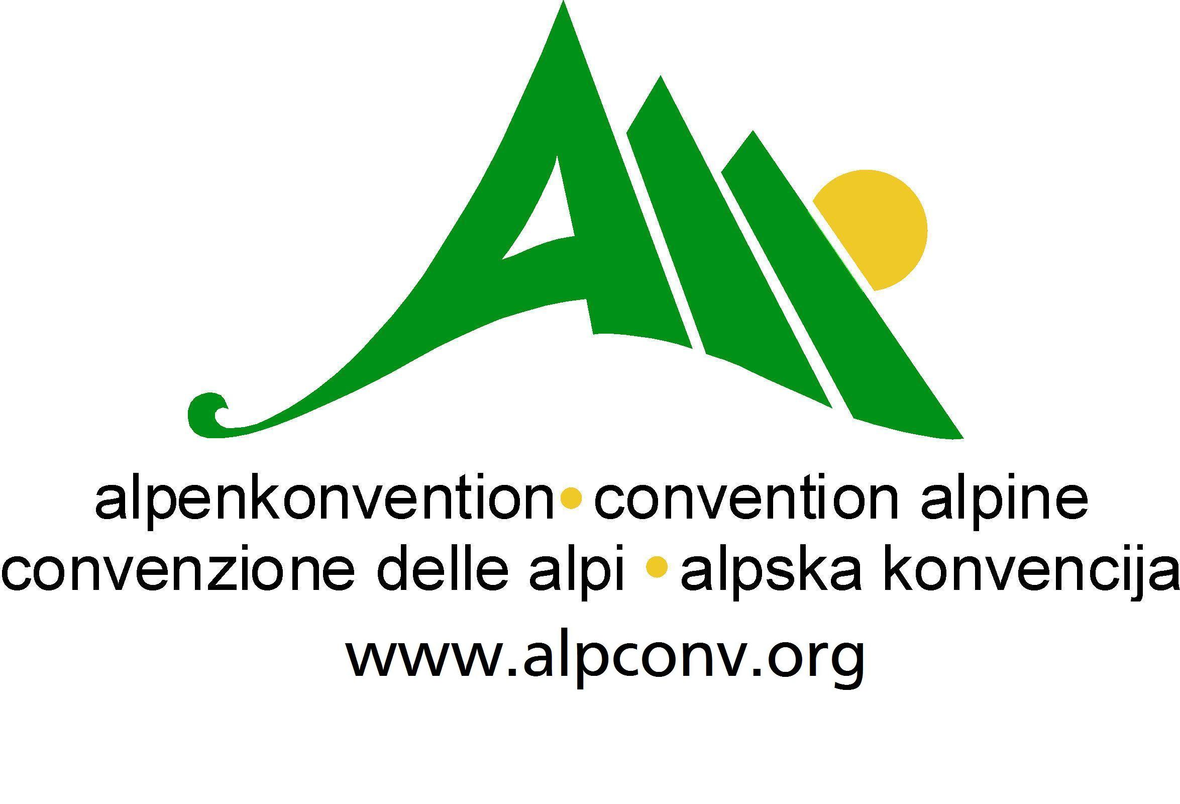 Logo of the Alpine Convention